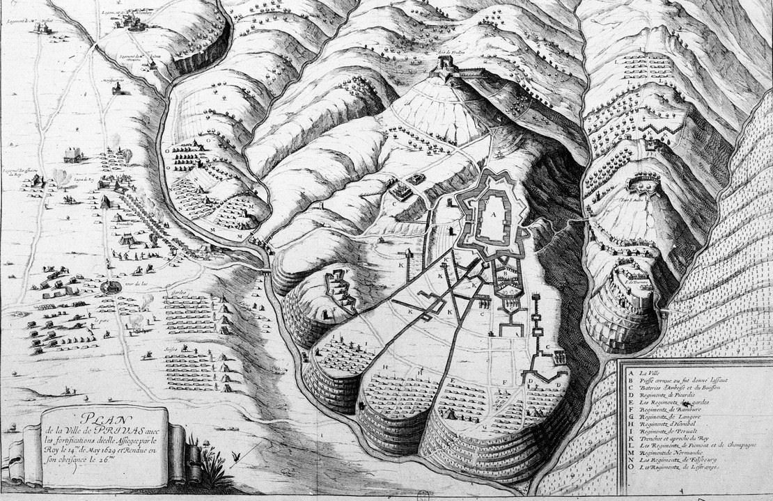 Privas_in_1629_by_Abraham_Bosse."Plan de la ville de Privas. Assiégée par le Roy le 14ème de mai 1629 et rendue en son obéissance le 26ème."